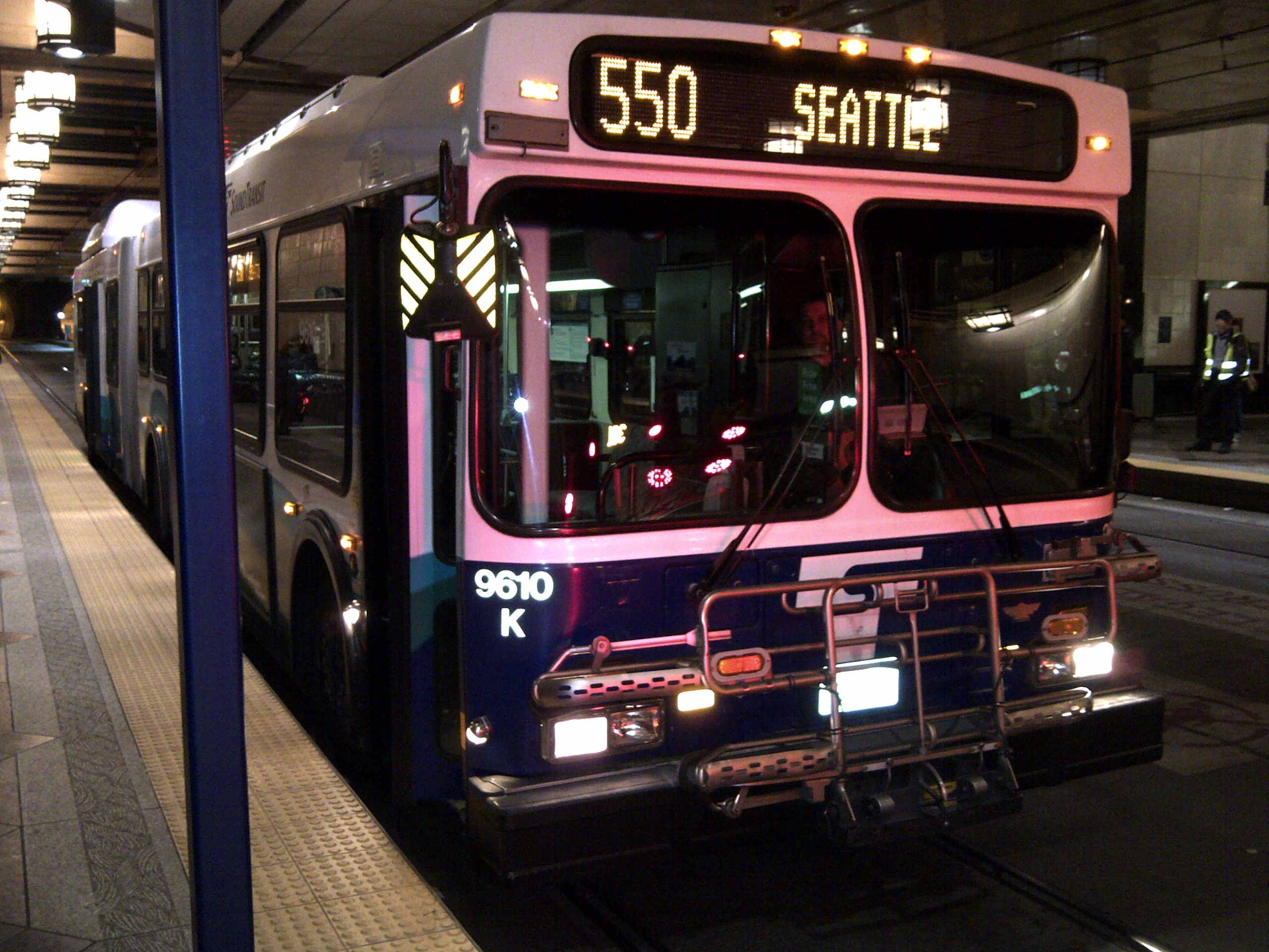 Sound Transit Fleet 9610 (New Flyer Industries DE60LF)